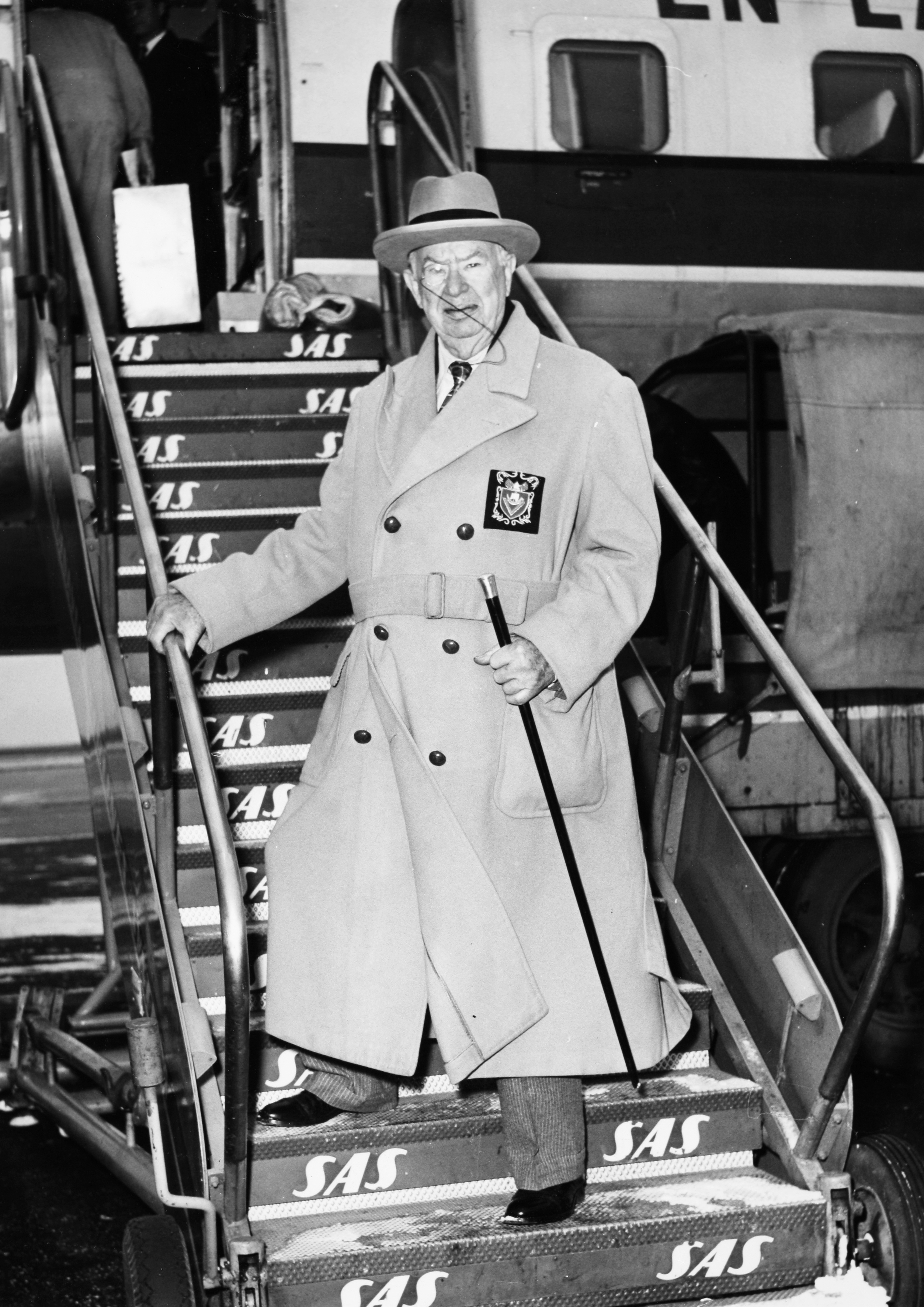 Charles Coburn, actor, USA, at Kastrup Airport CPH, Copenhagen, Denmark.